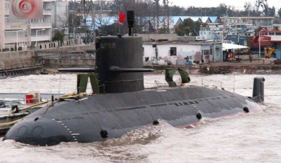 CSR Report RL33153 China Naval Modernization: Implications for U.S. Navy Capabilities—Background and Issues for Congress by Ronald O'Rourke dated February 28, 2014. Page 9 - Figure 2. Yuan (Type 039A) Class Attack Submarine Source: Photograph provided to CRS by Navy Office of Legislative Affairs, December 2010.